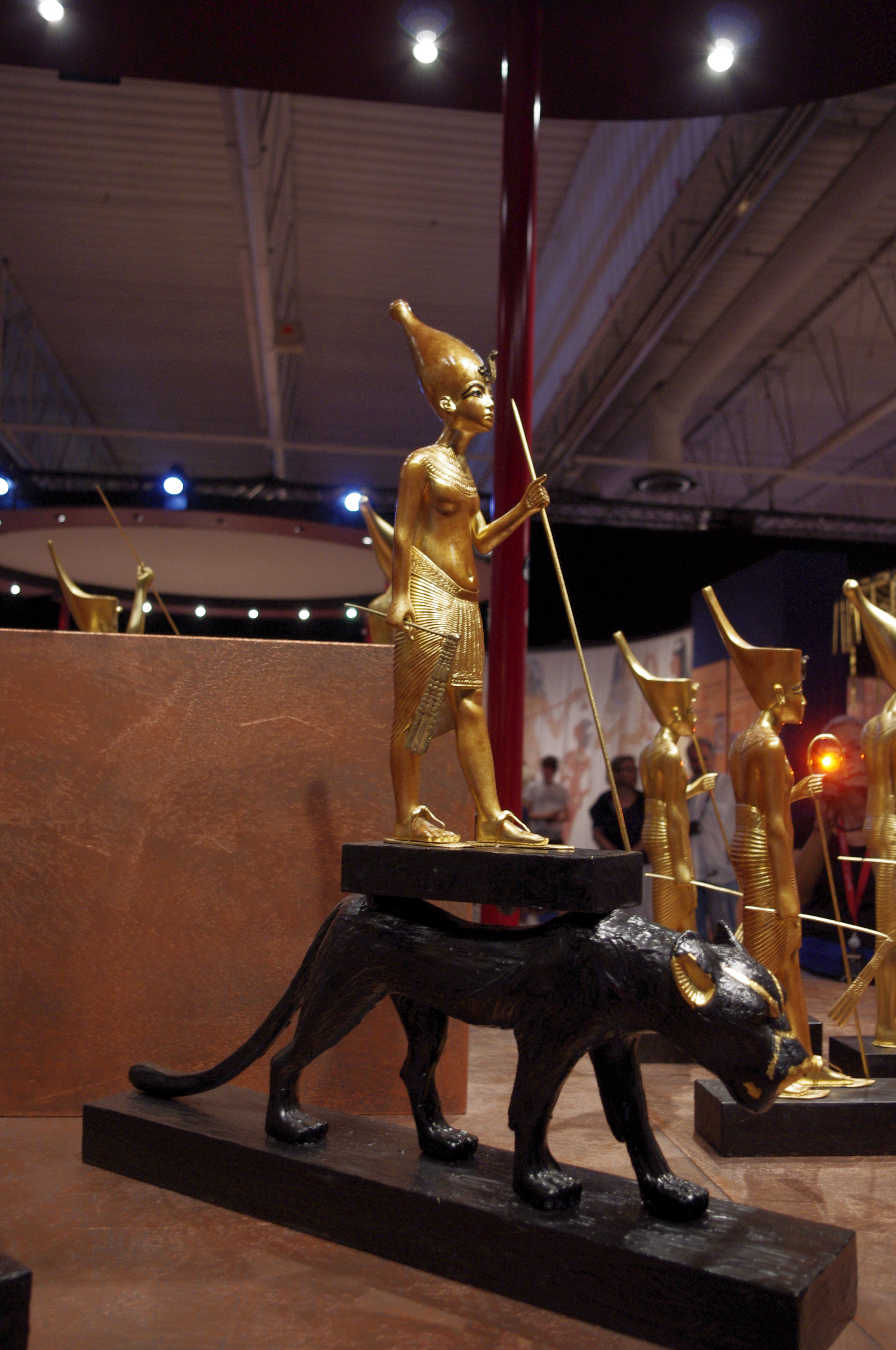 Treasure of Tutankhamun, exposition in Paris 2012. The king standing on a leopard